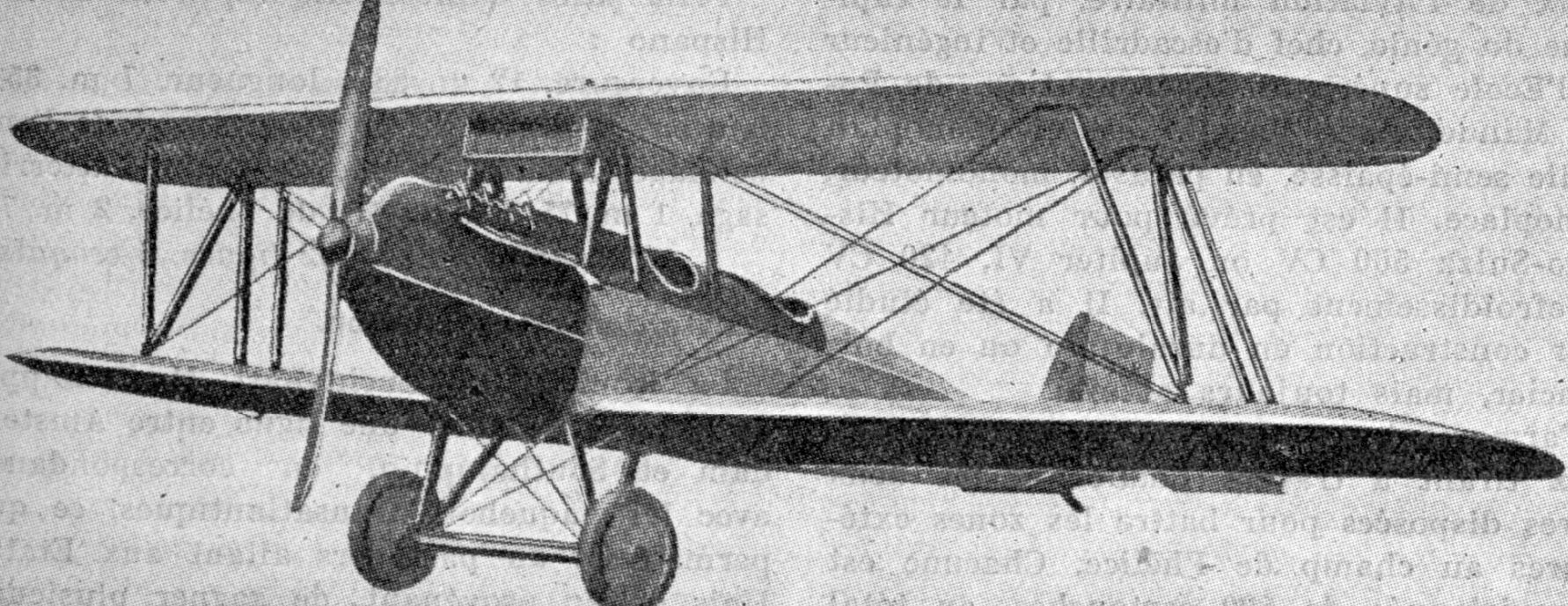 NAS Air King Model 26 photo from Le Document aéronautique May,1927